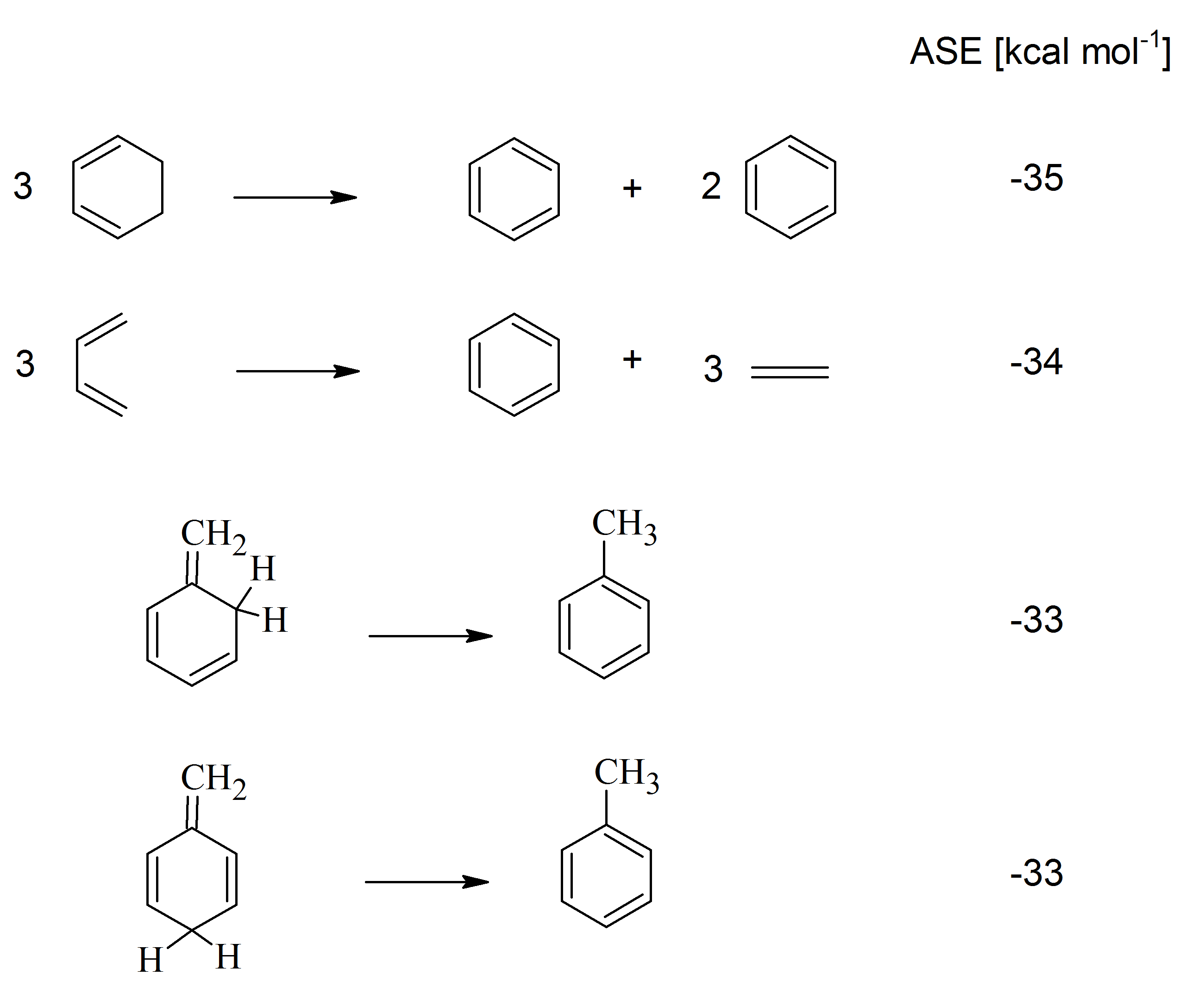 Aromatic Stabilization Energy of Benzene